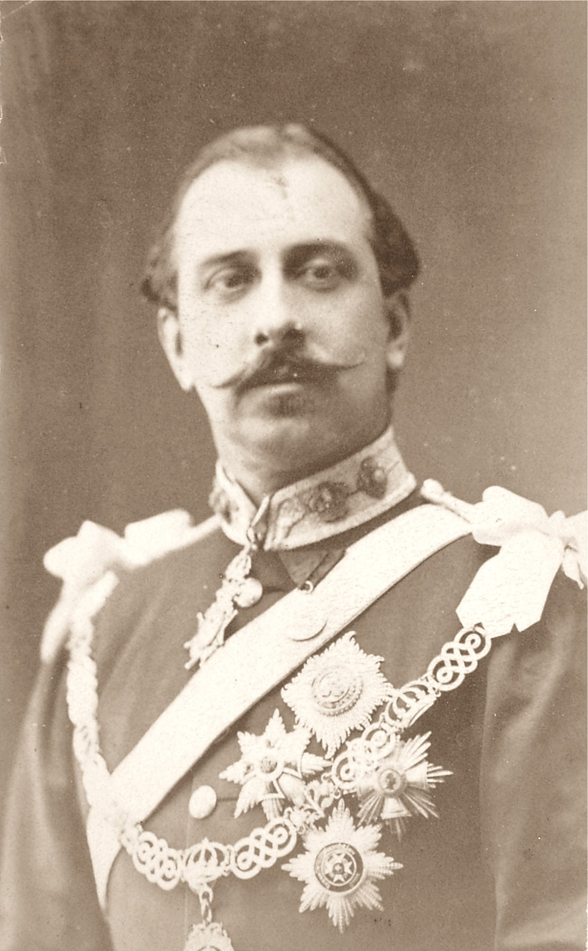 Franz, Duke of Teck